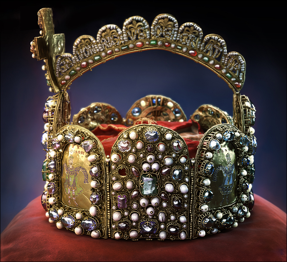 3D Visualization of the medieval German imperial crown